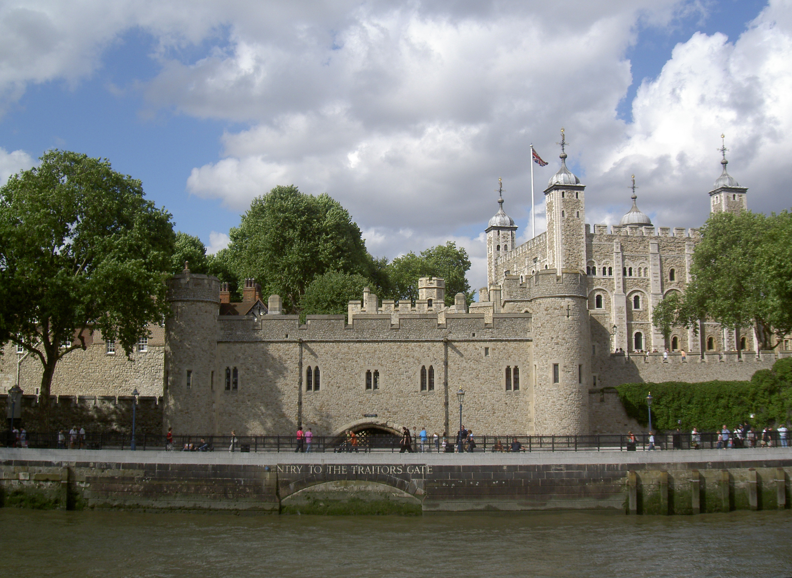 It's a picture of the Traitor's Gate of the Tower of London as seen from the river.